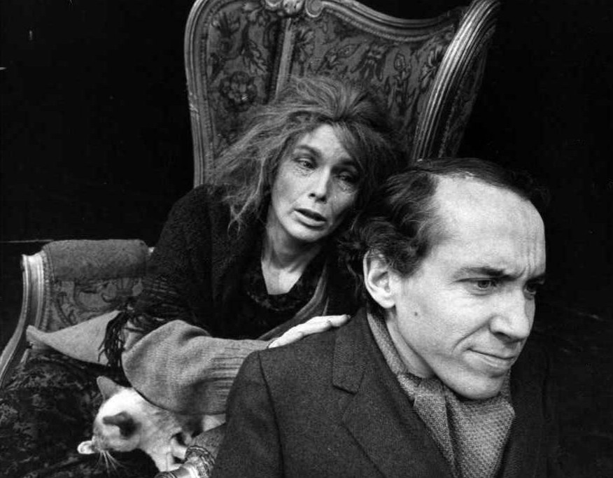 Photo of Michael Dunn as Antaeus in the play The Inner Journey.